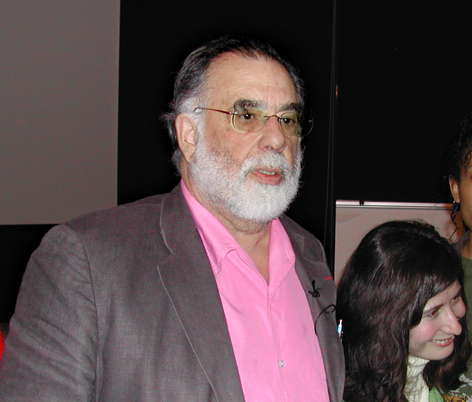 Francis Ford Coppola, American film director, speaking to a group of American Studies students from the University of Bucharest. Mr. Coppola discussed filmmaking from the perspective of his life and career and his experiences in Romania. The director described how he came to produce "Youth Without Youth", a movie being filmed and produced in Romania.